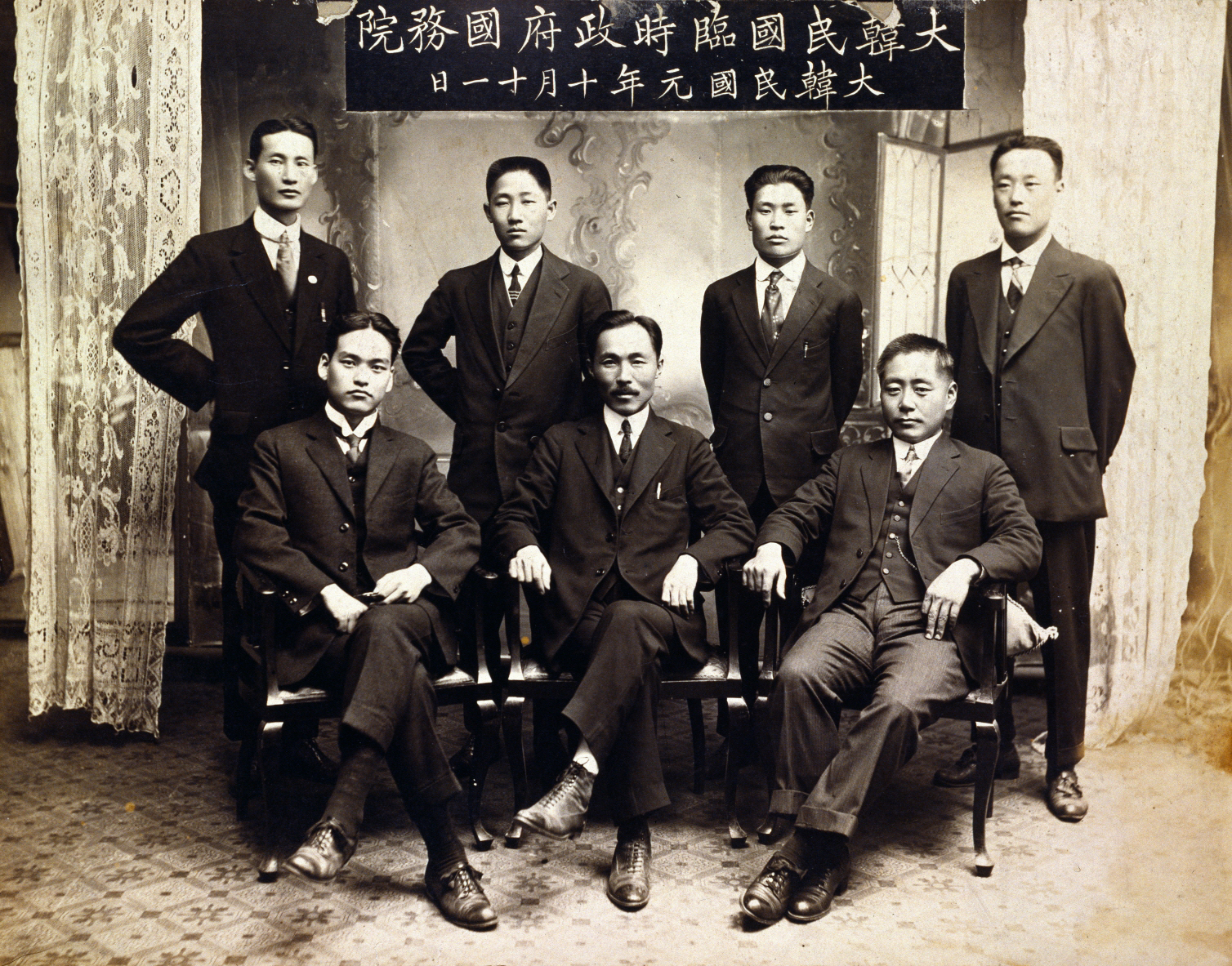 For memorial of establishing Provisional Government of the Republic of Korea